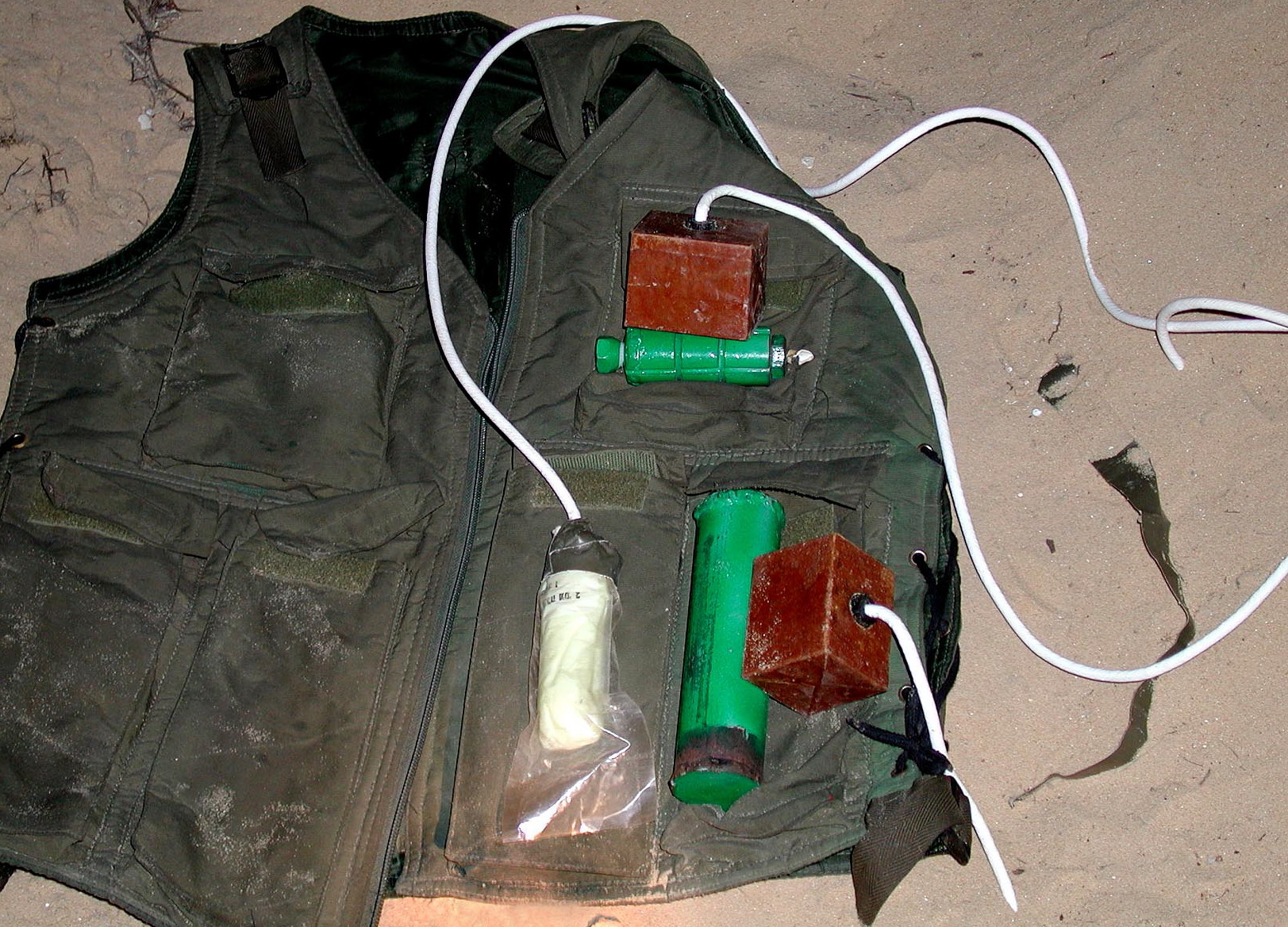 10/07/2002 IDF forces apprehended a terror operative wearing the explosive belt pictured. The soldiers were operating in Khan Yunes, home to many Hamas operatives. The Israel Defense Forces Facebook The Israel Defense Forces blog Follow us on Twitter